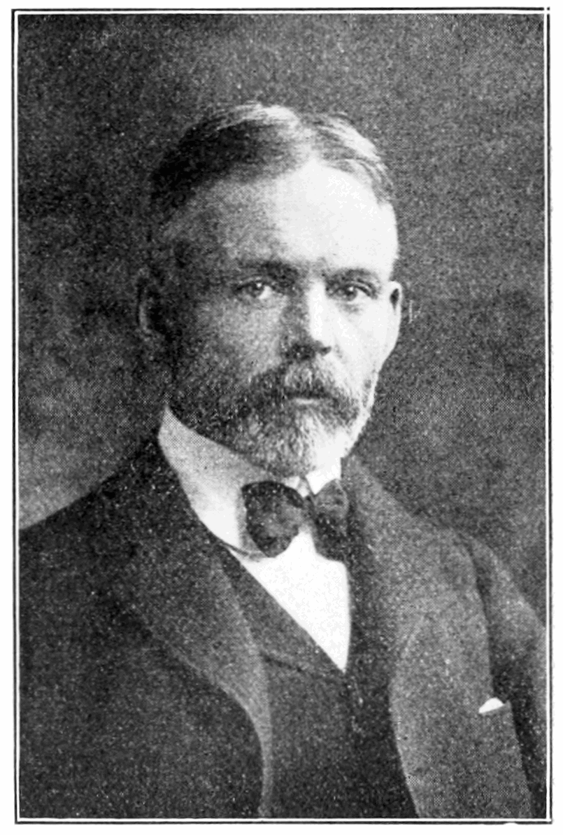 Edmund Beecher Wilson